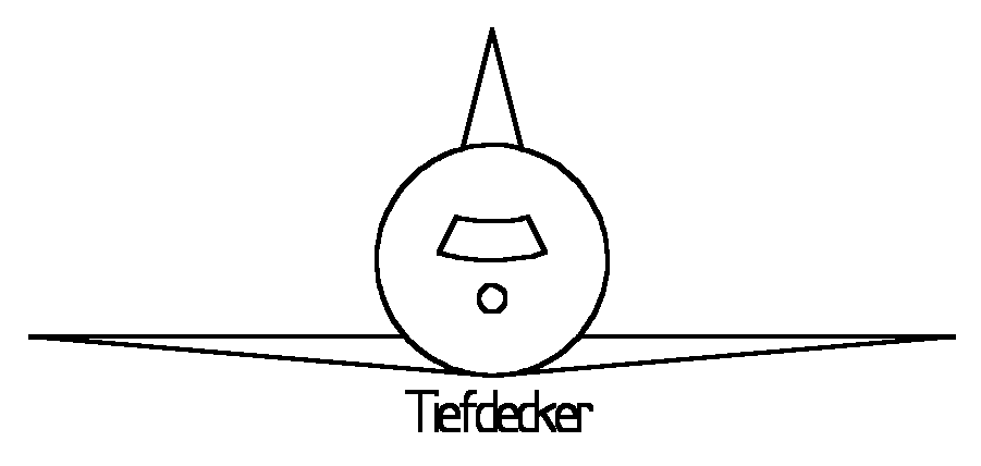 Low-wing aircraft